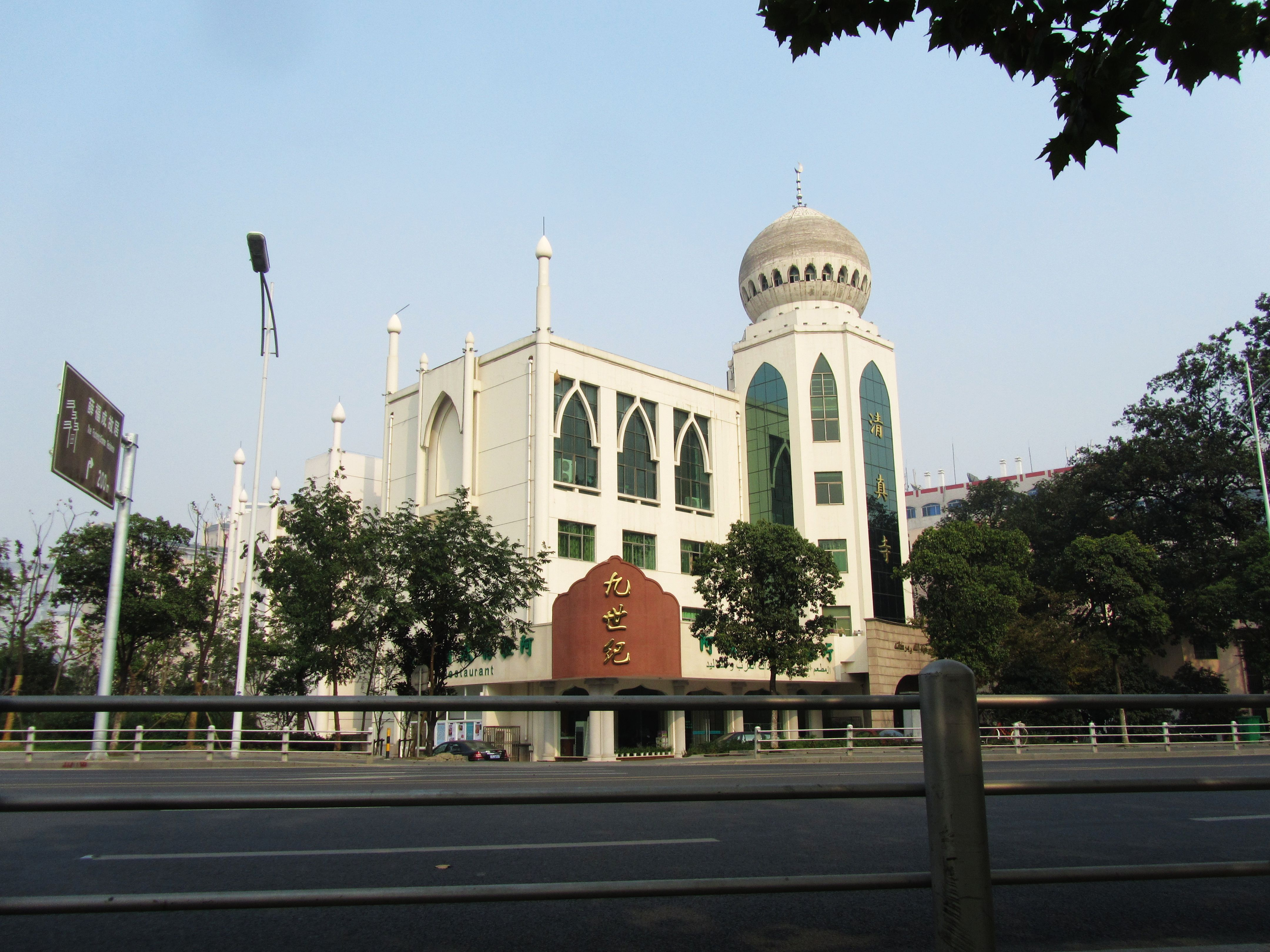 Wuxi Mosque